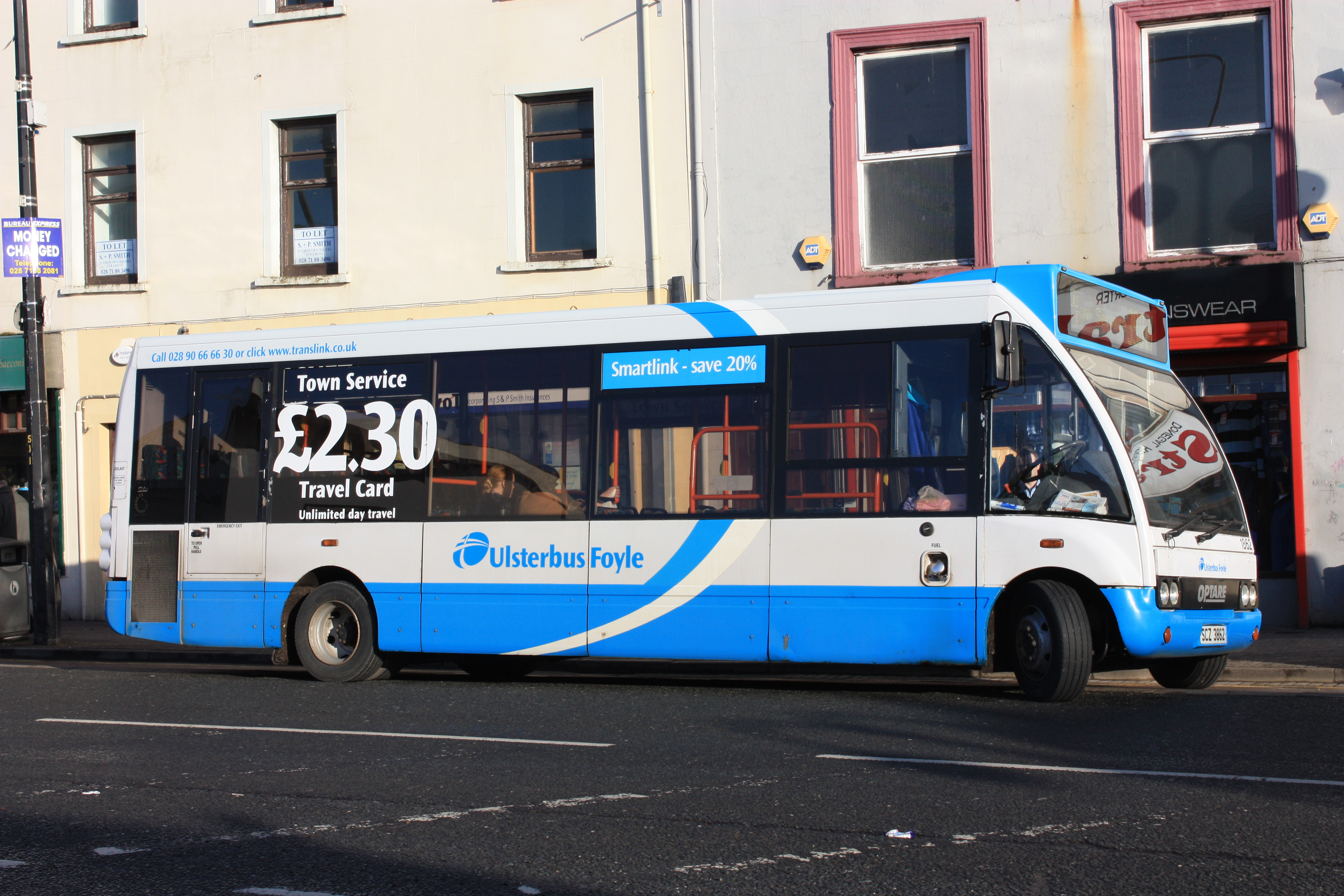 Ulsterbus bus 1862 (reg. SCZ 3862), a 2003 Optare Solo M850 midibus, in Abercorn Square, Strabane, County Tyrone.